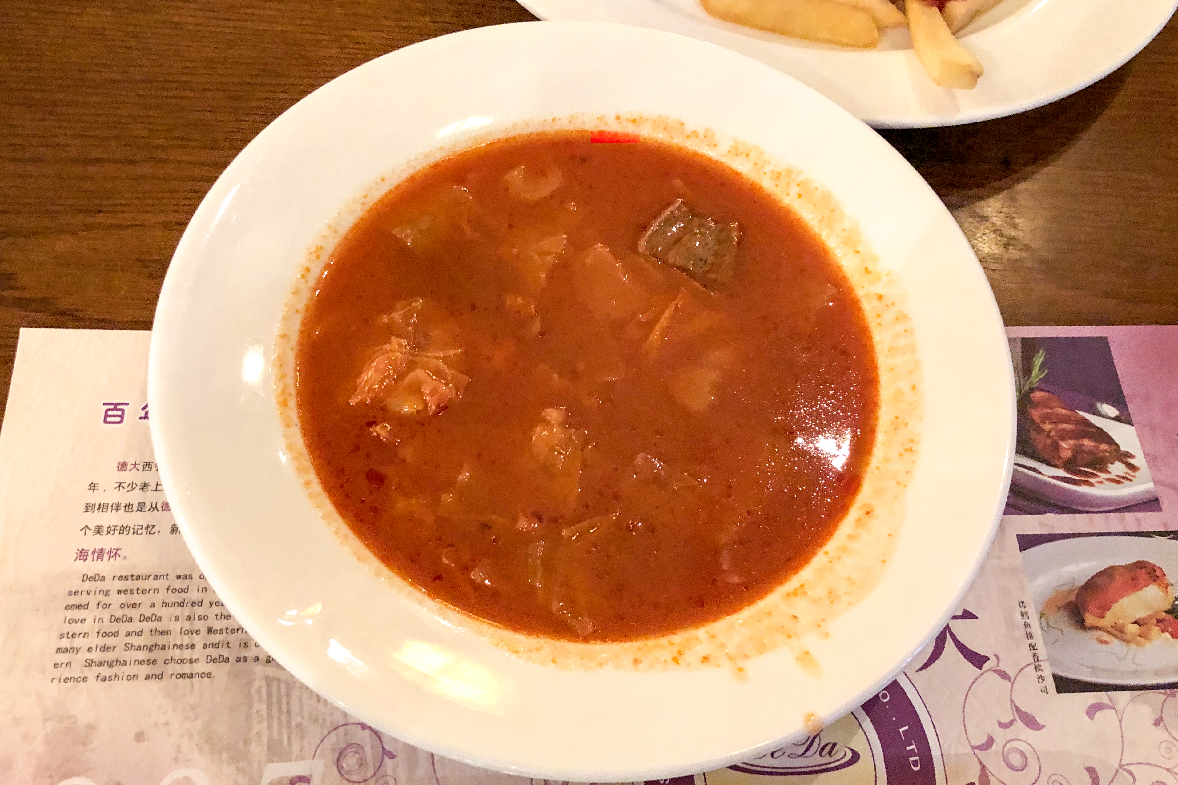 Different from the Russian version.